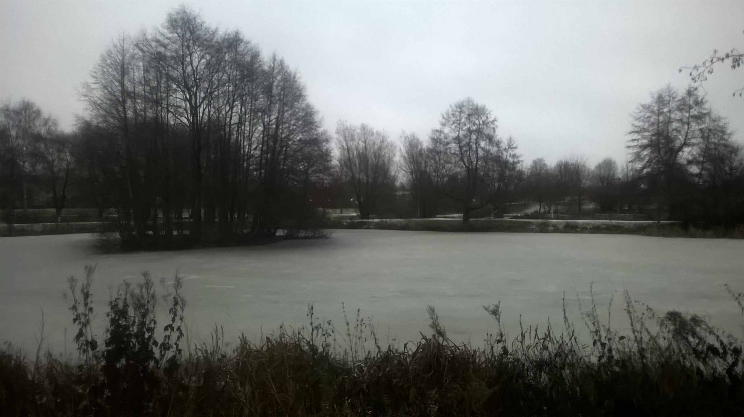 a view from laune keskuspuyisto